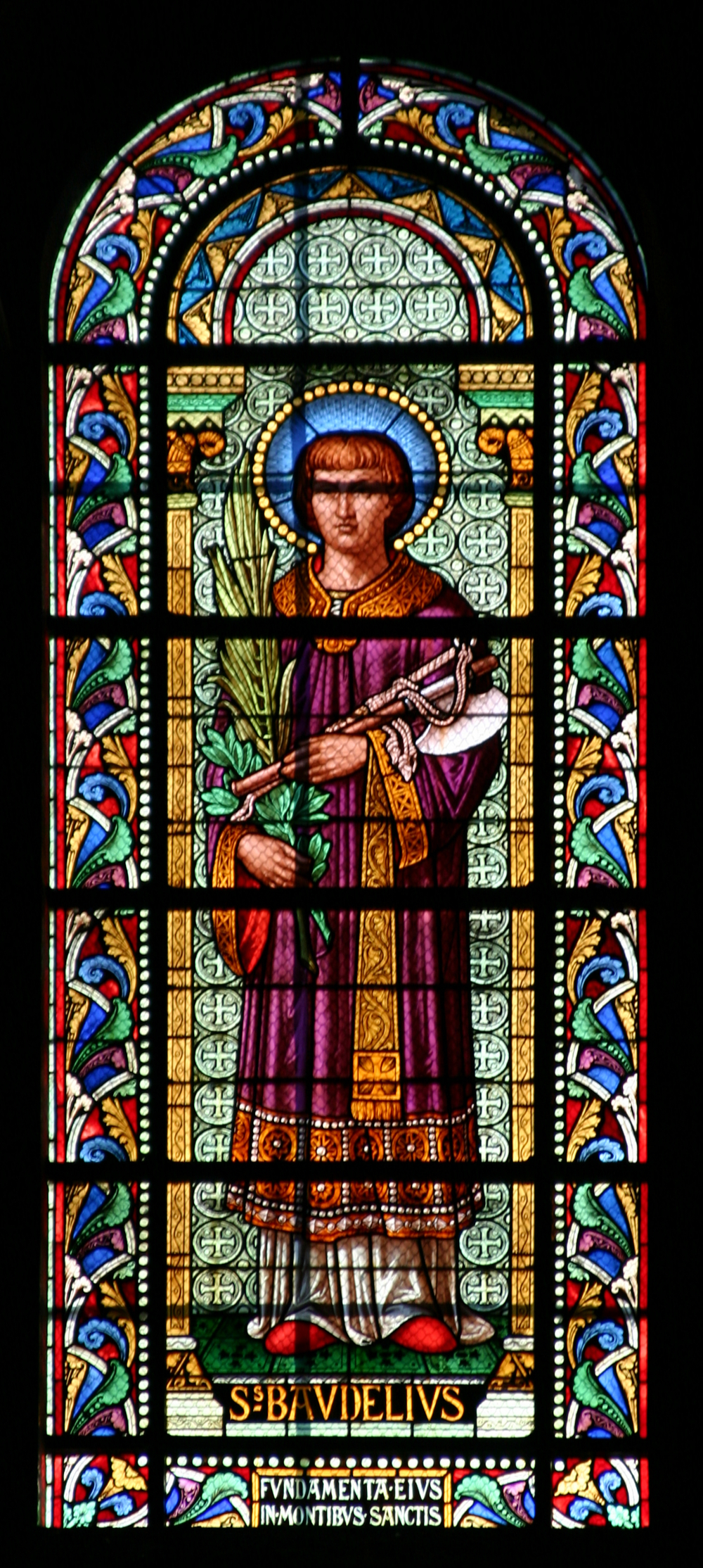 Cathédrale Notre-Dame-et-Saint-Castor